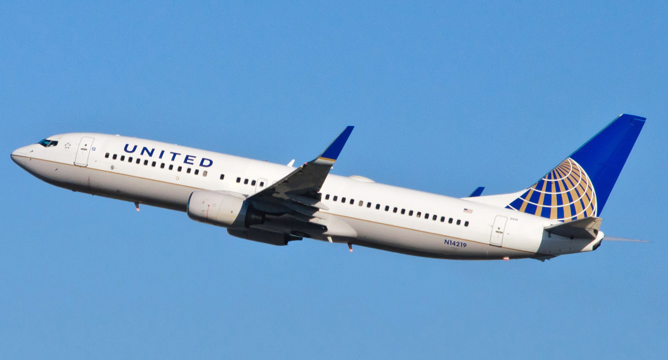 Operating United 1535 to Guadalajara. 30 November 2011 marked a milestone in the United-Continental merger, where the two airlines operate under a single Air Operating Certificate. Although it is the old Continental's certificate, the name, and the air traffic control callsign, are United. Continental now no longer exists as a separate airline, even though Continental Airlines' separate pilot union contract and reservation system still remain. N14219, Boeing 737-800 (ex-Continental)